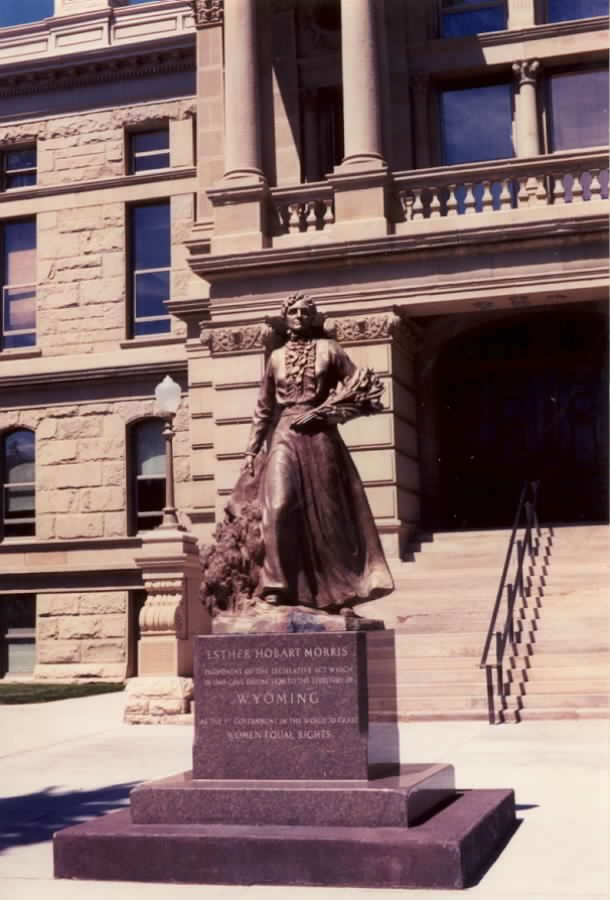 Photo by Einar Einarsson Kvaran